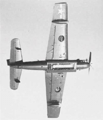 A Grumman AF-2S Guardian (BuNo 124780) photographed from below with an opened weapons bay.